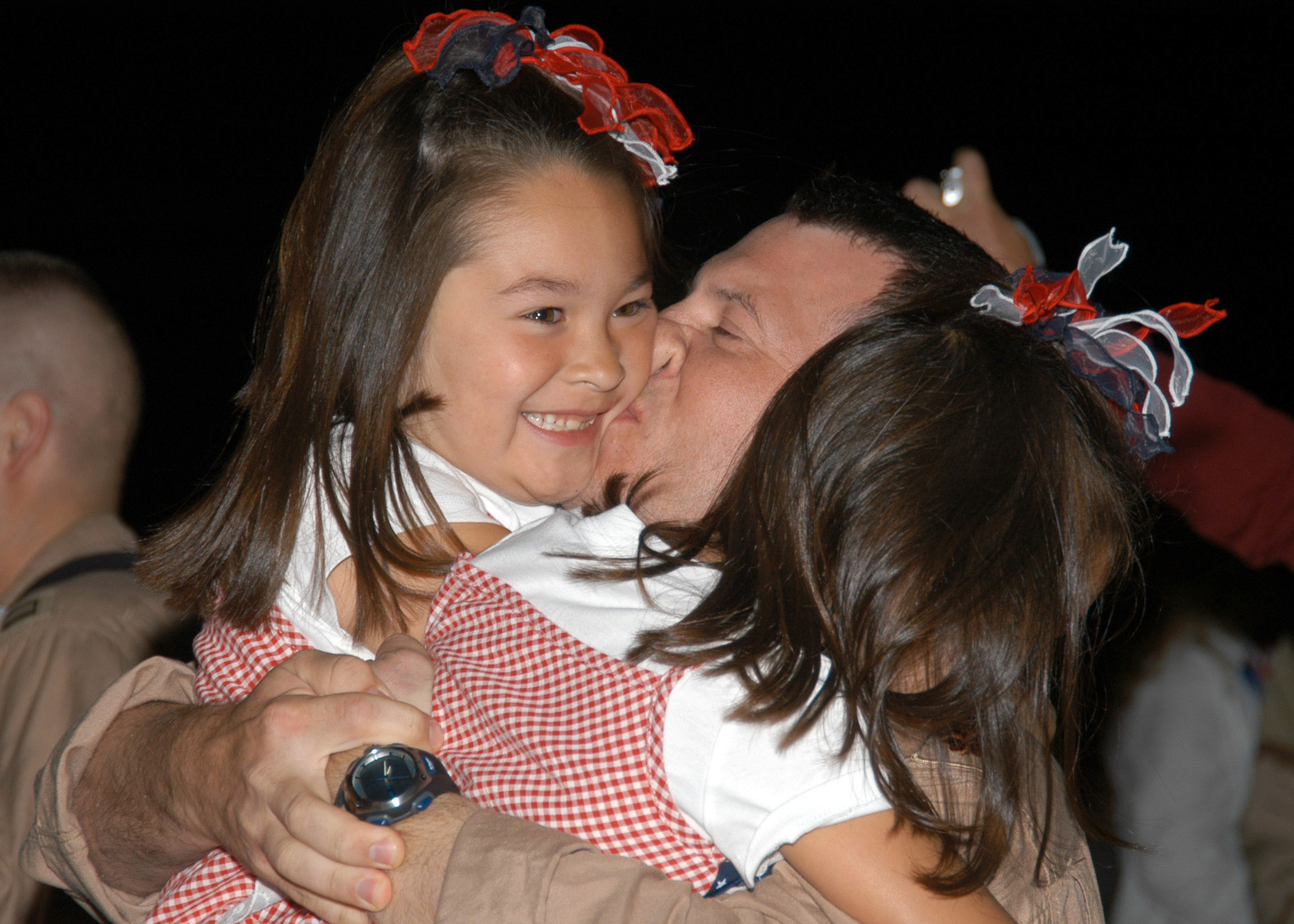 WHIDBEY ISLAND, Wash. (July 30, 2007) - Lt. Cmdr. Joe Vandelac, of St. Paul, Minn., kisses his daughters as the Electronic Attack Squadron (VAQ) 134 is welcomed back to Naval Air Station (NAS) Whidbey Island. VAQ-134 completed a 186-day deployment in support of Operation Enduring Freedom. U.S. Navy photo by Mass Communication Specialist 2nd Class Tucker M. Yates (RELEASED)